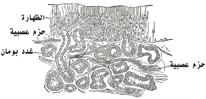 Section of the olfactory mucous membrane. (Cadiat.) المخاطية الشمية